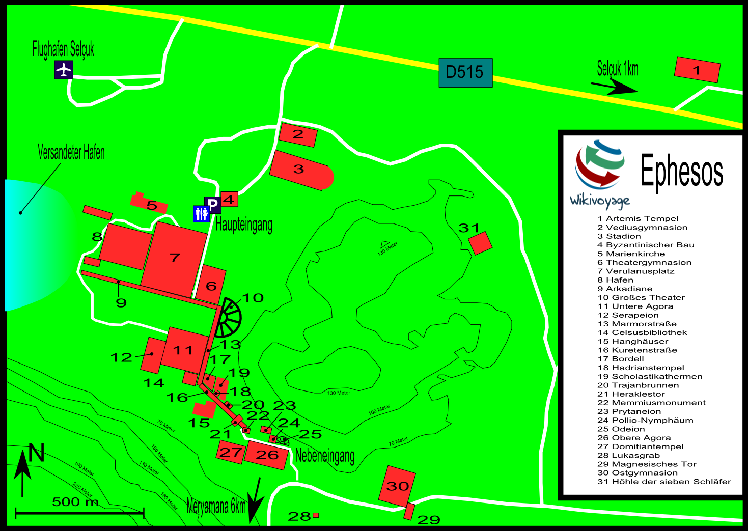 Touristical Map of Ephesos